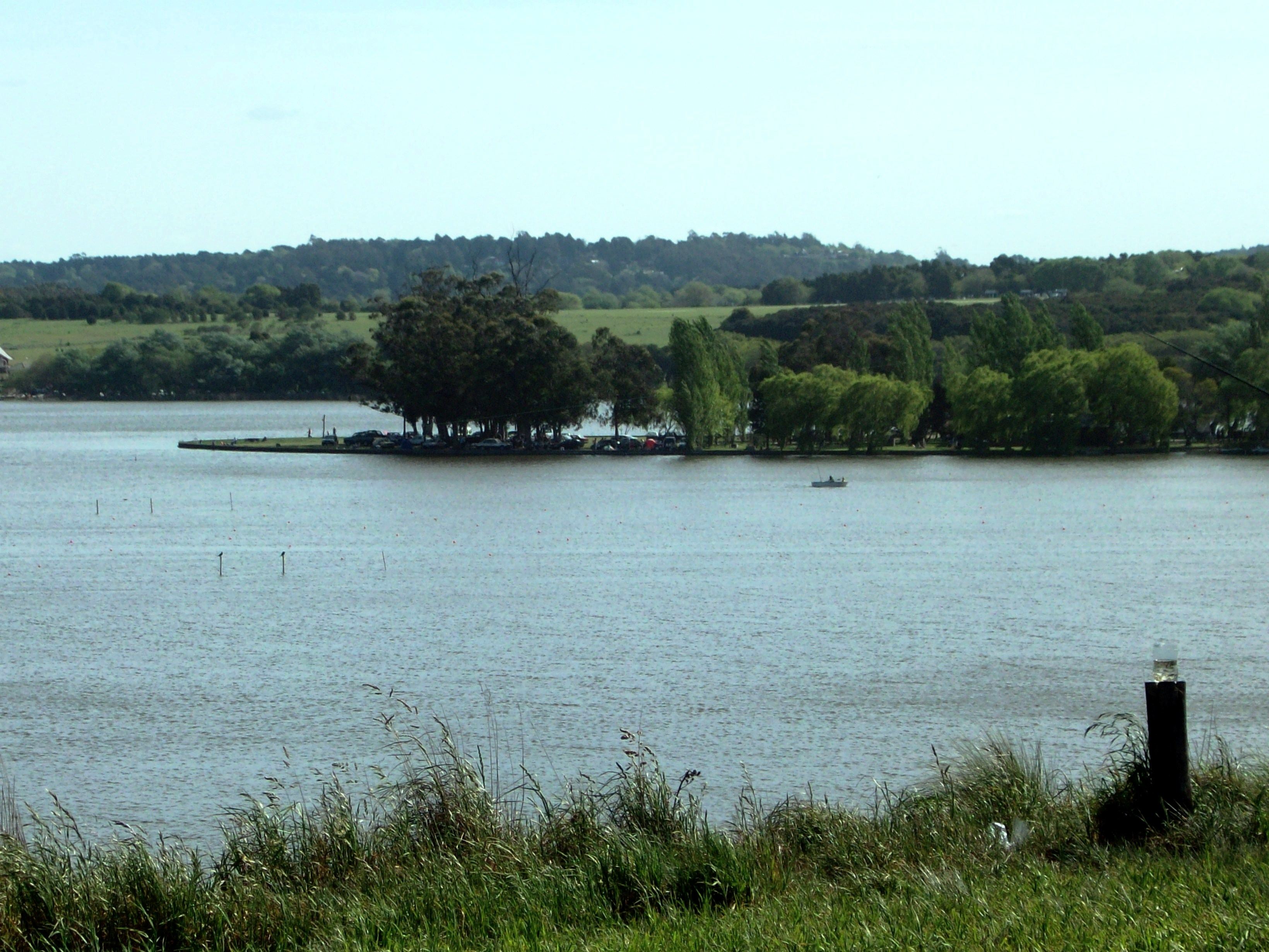 Fishing Club island, Laguna de los Padres. The island is connected to land by a causeway.